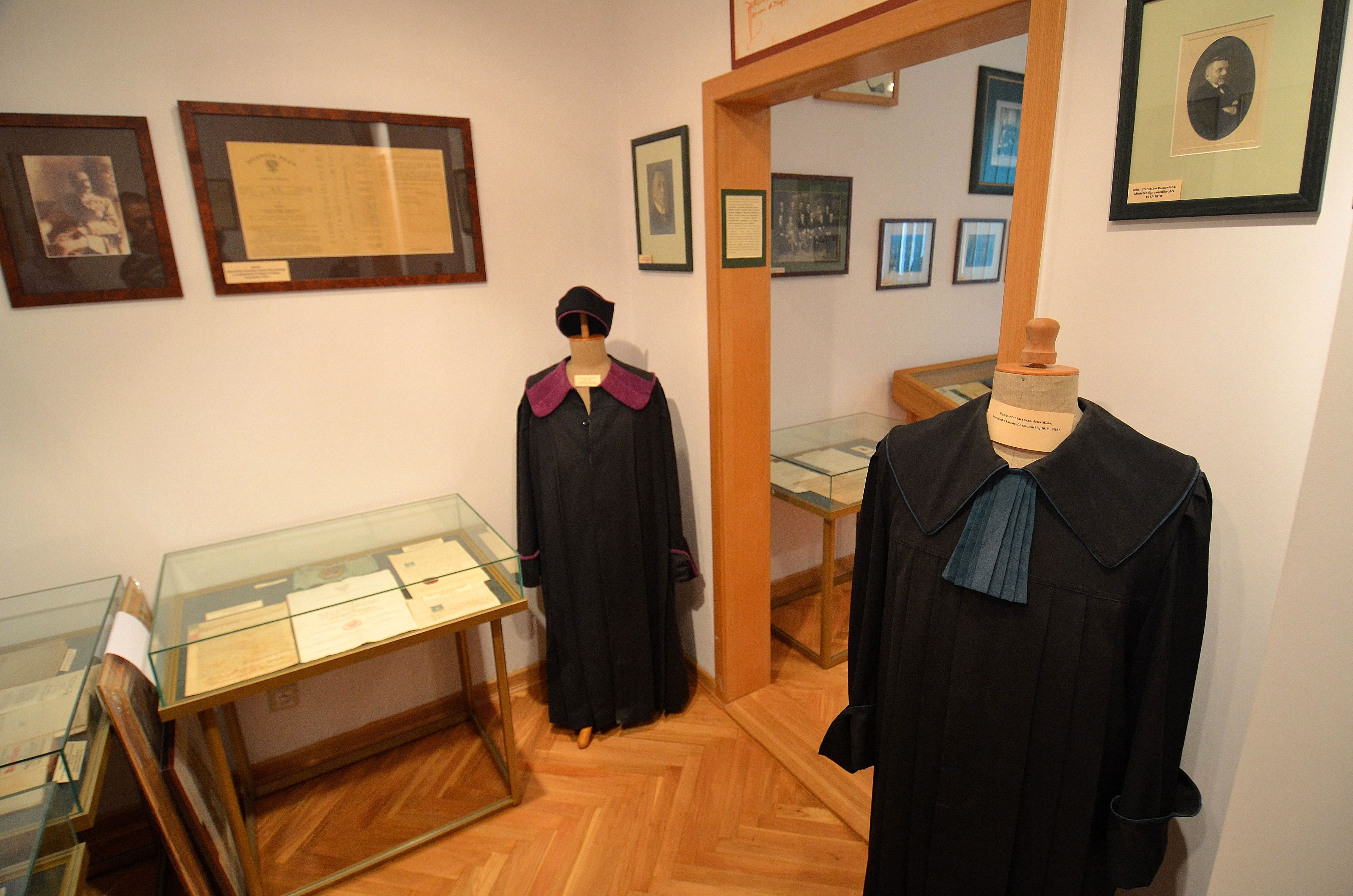 Museum of the Polish Bar in Warsaw